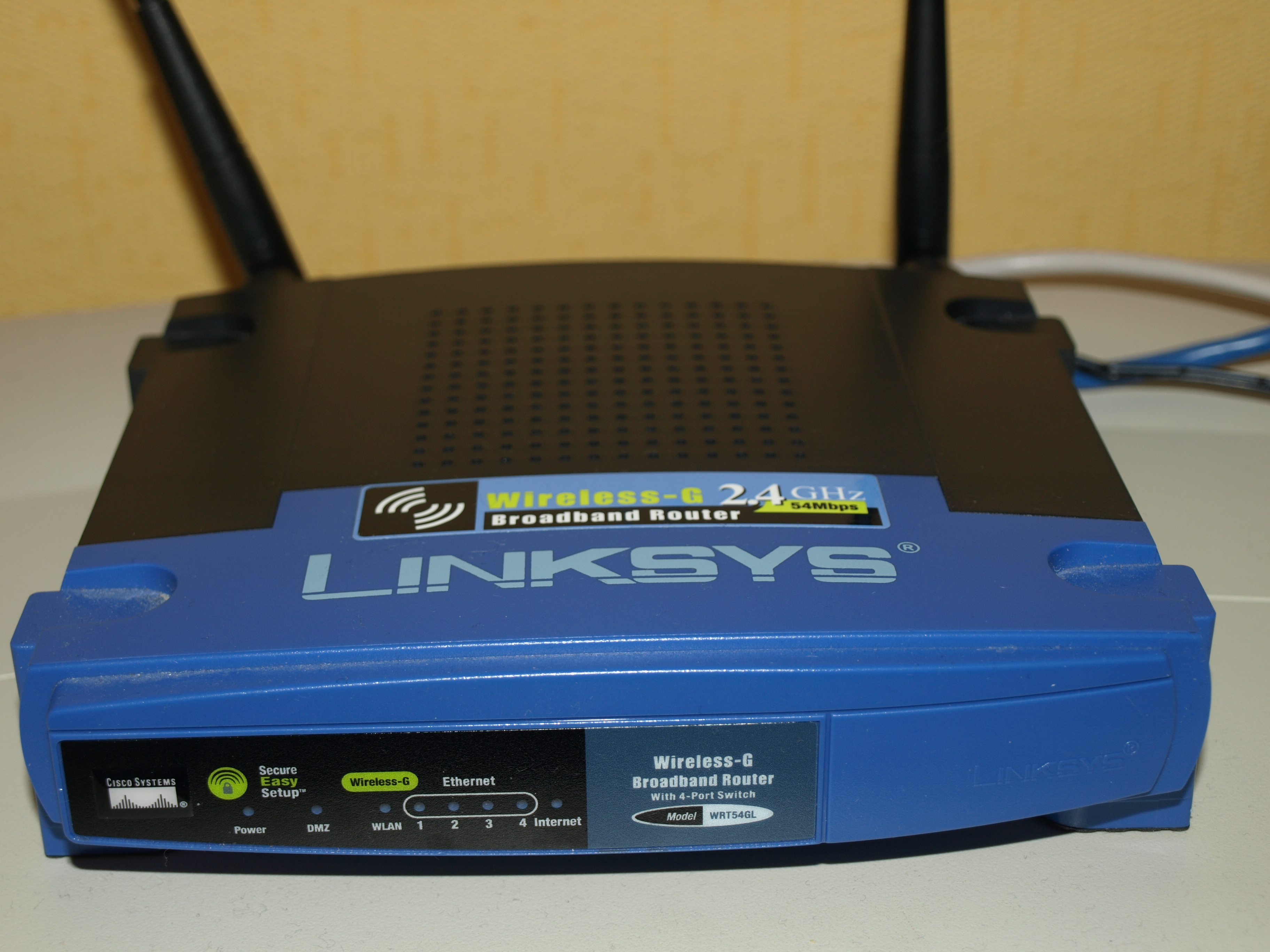 Linksys WRT54GL